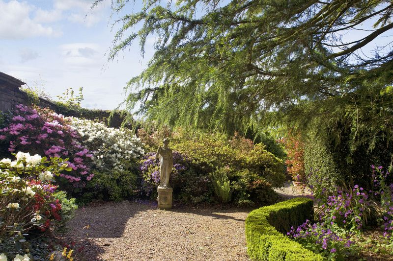 Easterly Garden